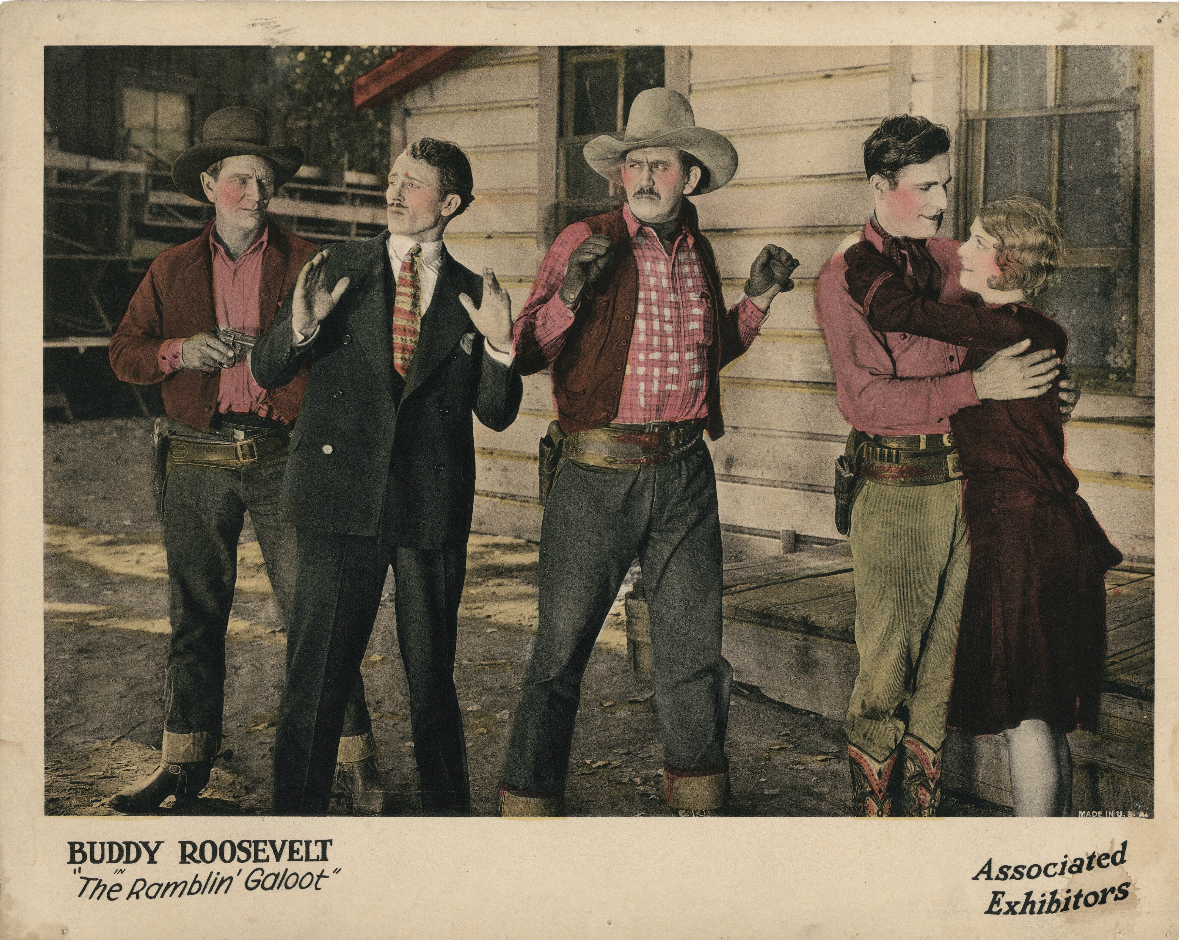 Lobby card for the American western film The Ramblin' Galoot (1926) with Frederick Lee, Al Taylor, Slim Whitaker, Buddy Roosevelt, and Violet La Plante.